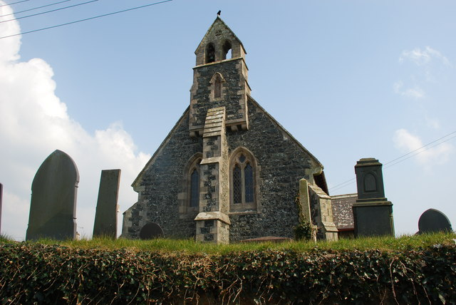 Eglwys St Cwyfan Tudweiliog